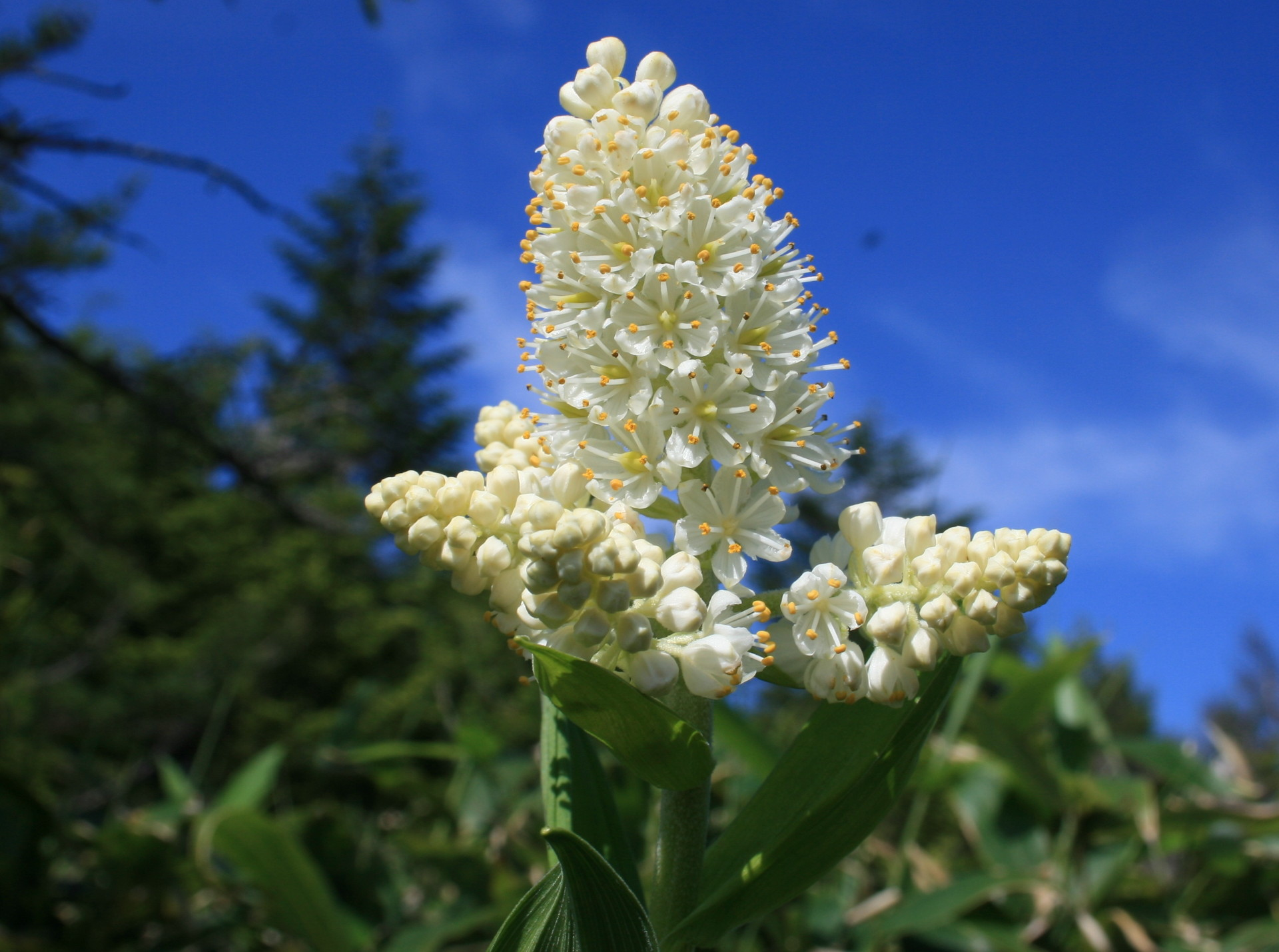 ’’Veratrum stamineum’’ in Mount Kohide, Japan.